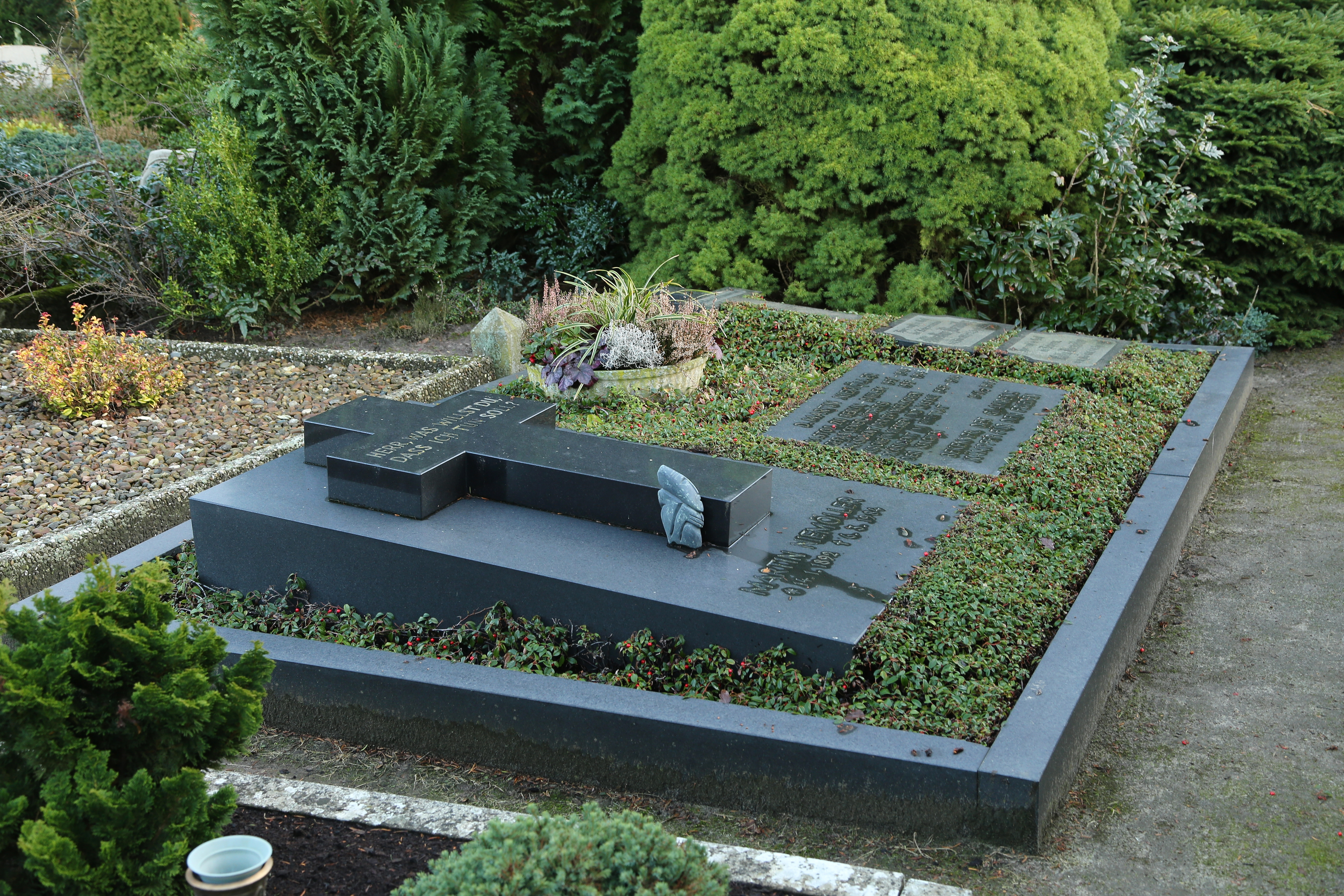 Grave of Pastor Martin Niemöller in the Old Protestant Cemetery Wersen (Alter Evangelischer Friedhof Wersen) in Lotte-Wersen, Kreis Steinfurt, North Rhine-Westphalia, Germany.